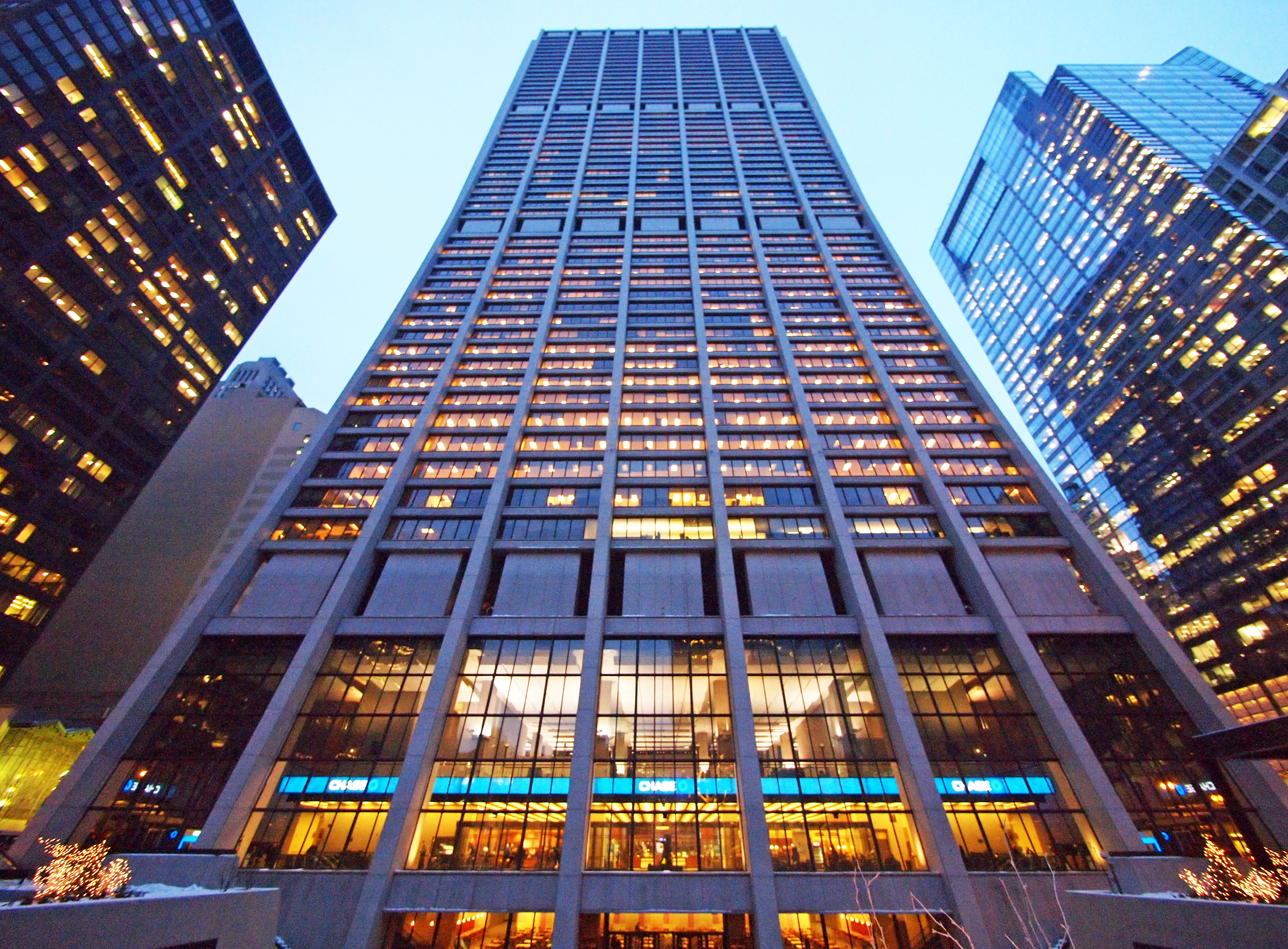 Chase Tower, Chicago